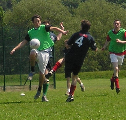 Own photo